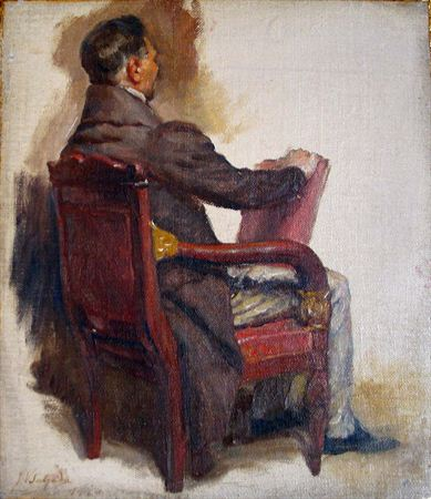 Study of human figures for the painting "The Constituent Courts of 1821", by Veloso Salgado. The depicted character is Hermano José Braamcamp de Almeida Castelo Branco (an adult man, with greying hair and shaven face, sitting on an armchair upholstered in red velour with golden fixtures on its arms, with his backed turned to the viewer, turned three-quarters to the right, looking ahead, with his right arm outstretched and his right hand on a book, wearing a gray coat and white trousers). Signed and dated on the lower left corner: "V. Salgado, 1920".